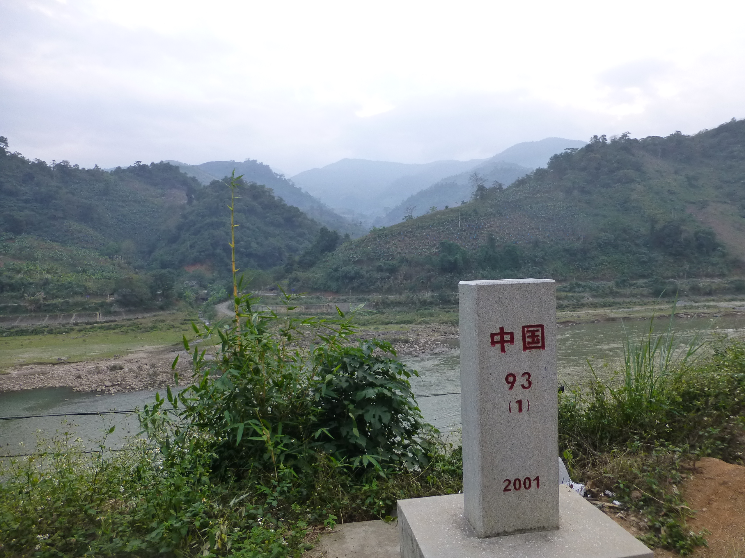 A border sign on the shore of the Red River, which forms China's border with Vietnam. Seen from Hwy G326 in Hekou County, south-east of Wudaokou. The far side of the river is in Vietnam.